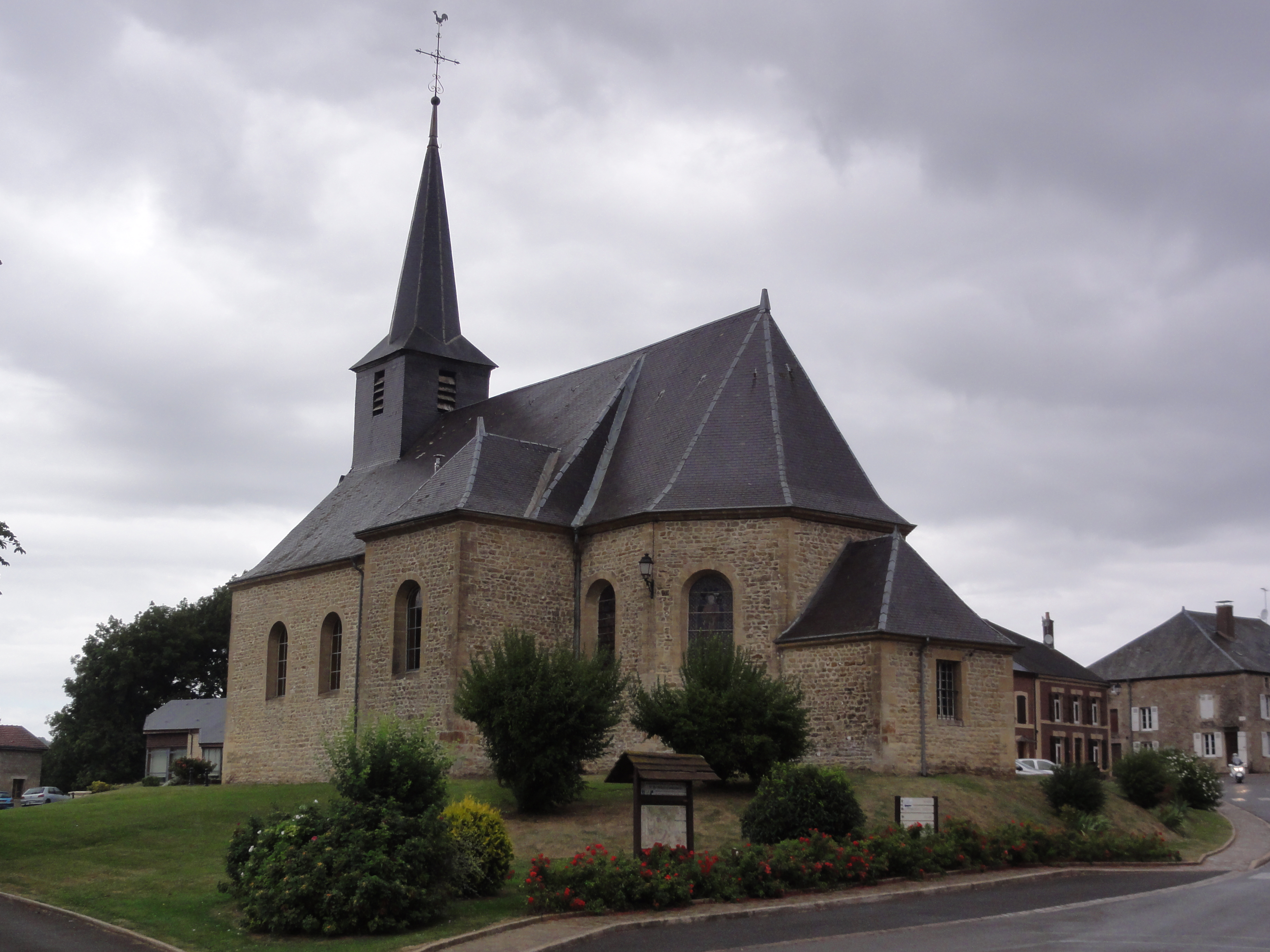 Montcornet (Ardennes) église